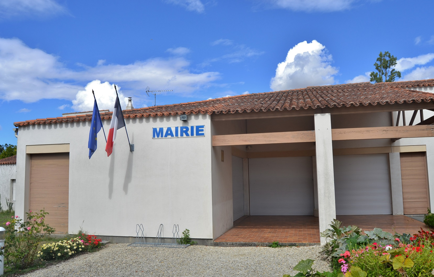 La Mairie